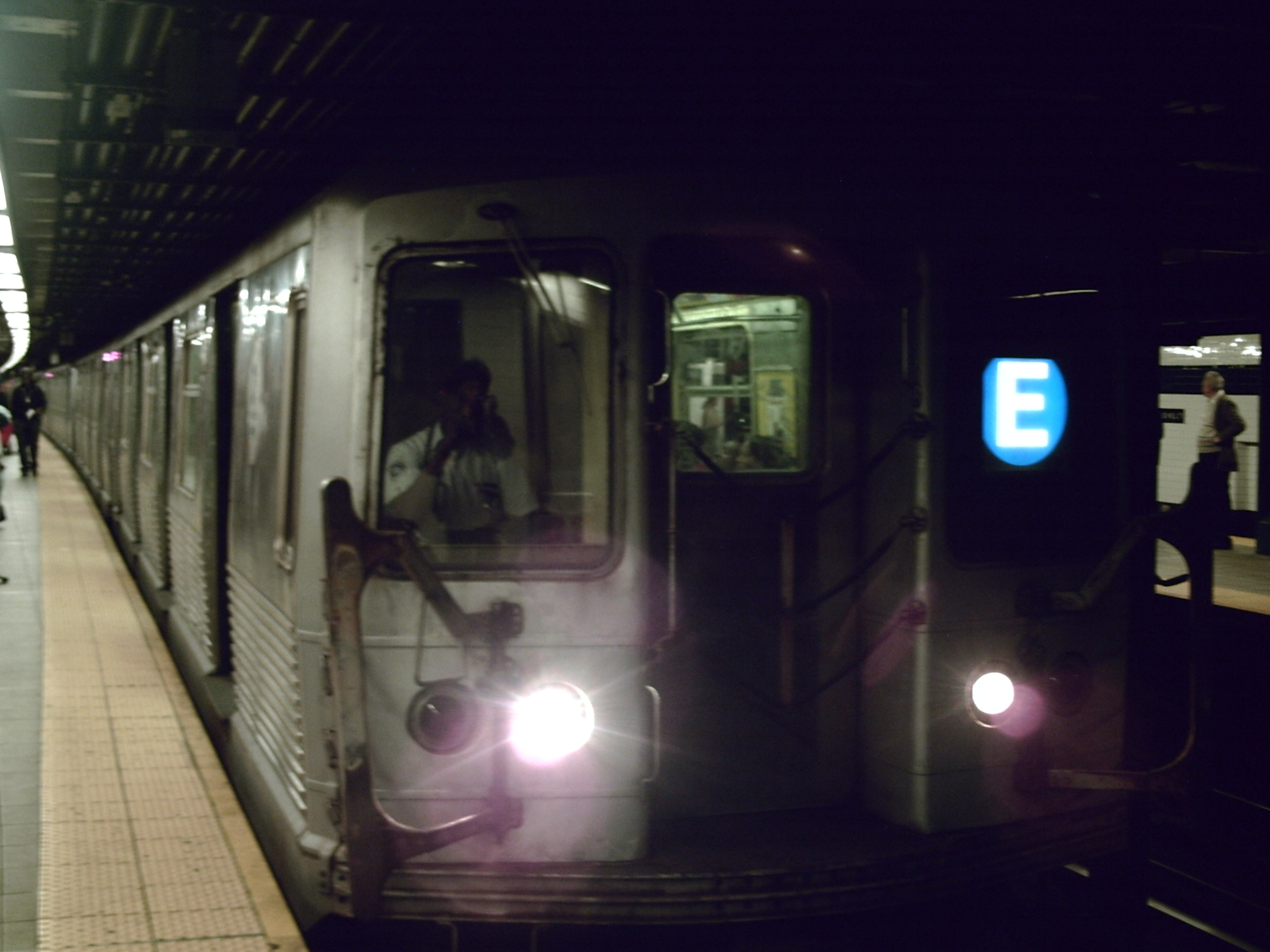 Jamaica Center-bound E train of R42s at Roosevelt Avenue-Jackson Heights